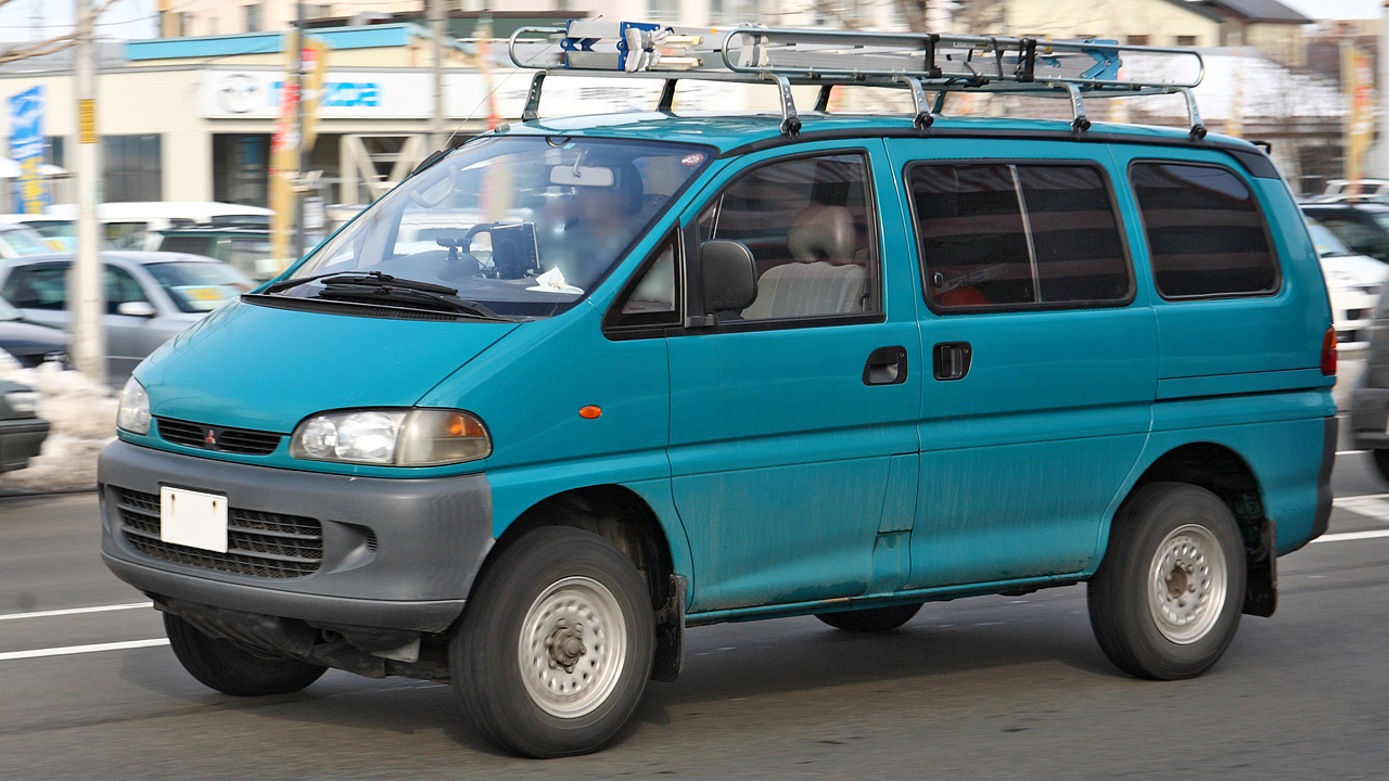 Mitsubishi Delica Cargo 4WD